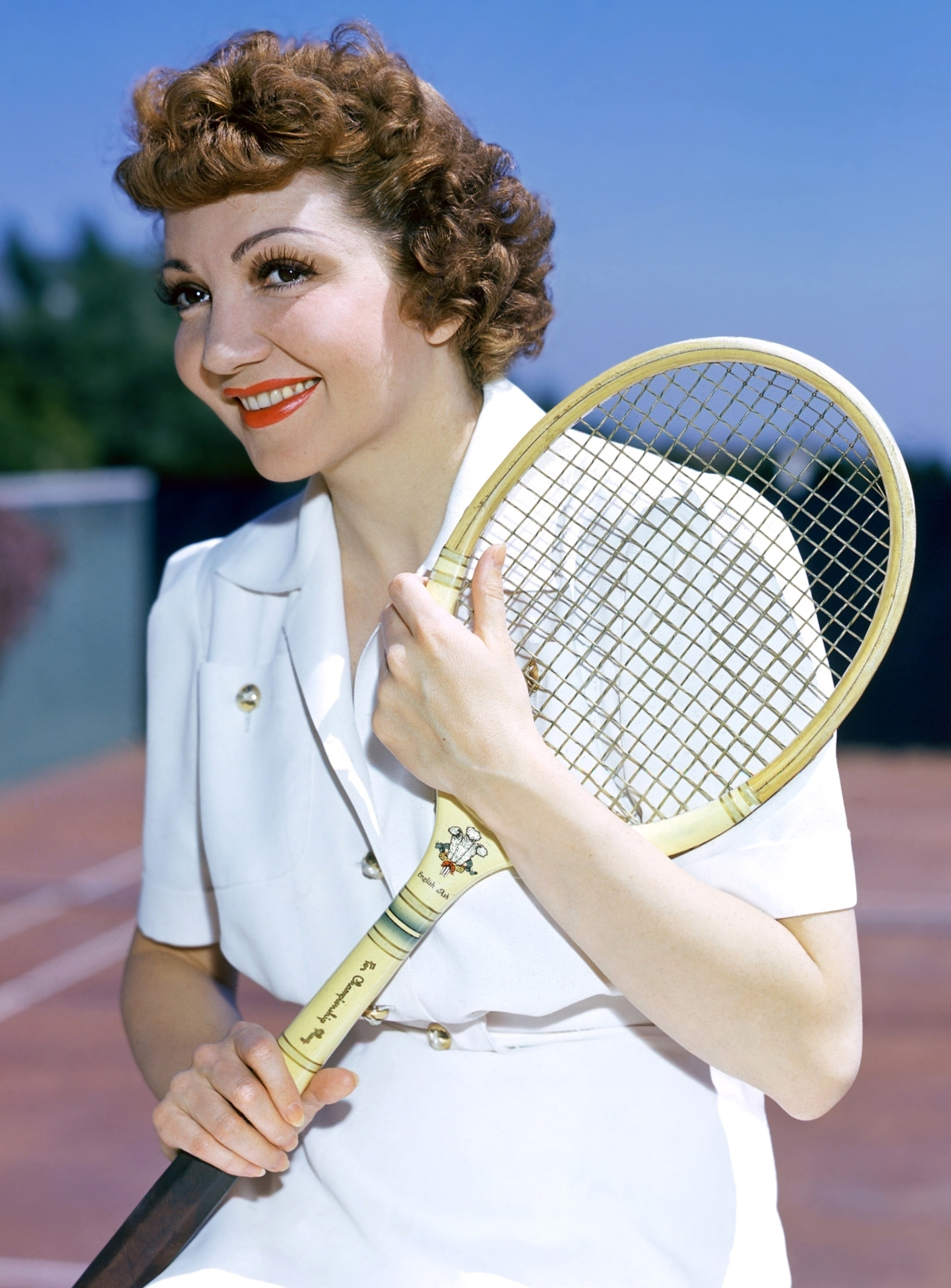 Claudette Colbert plays tennis